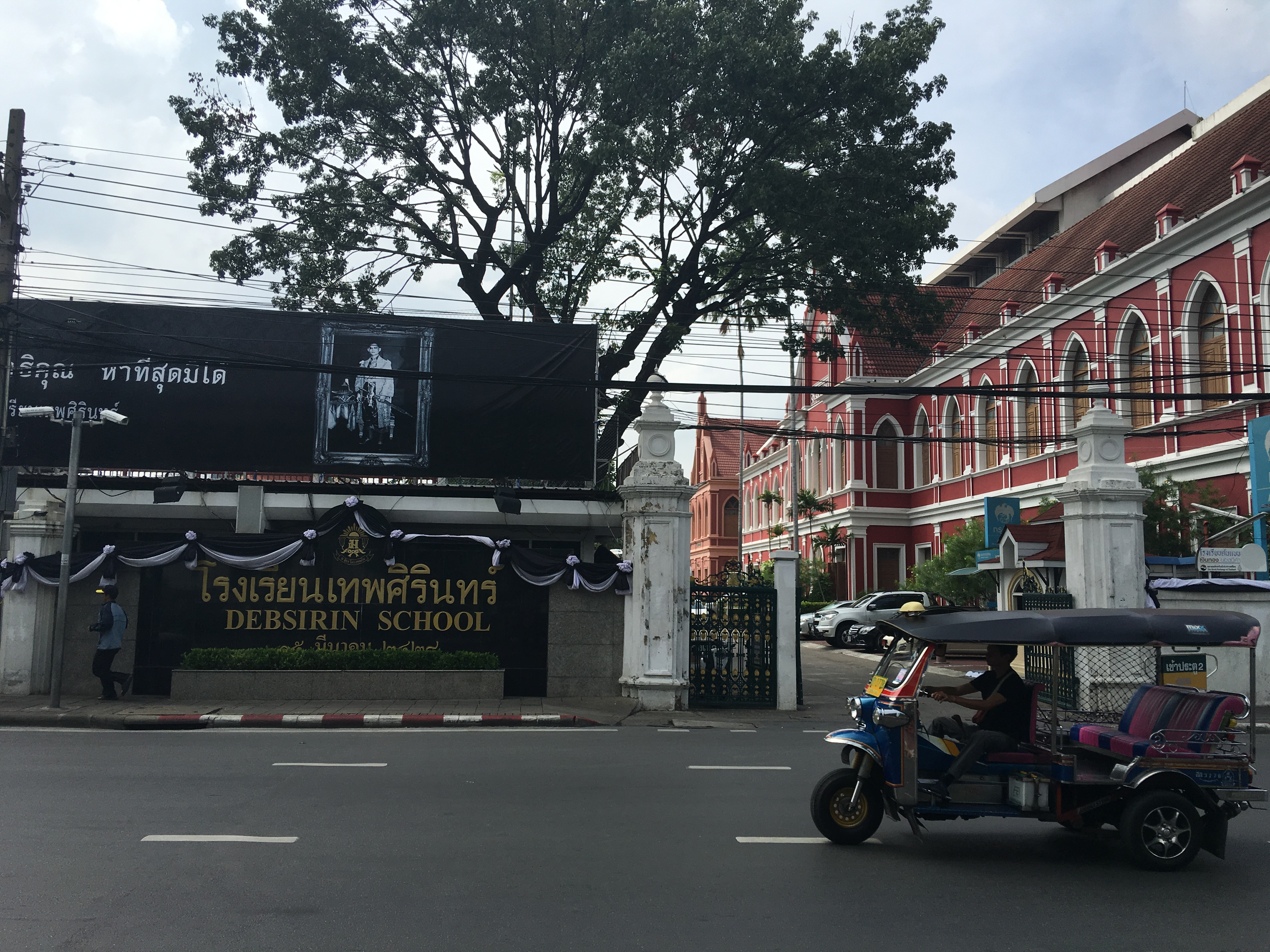 Debsirin School in east-central Bangkok, close to the canal Khlong Pachung Khrung Kaseam